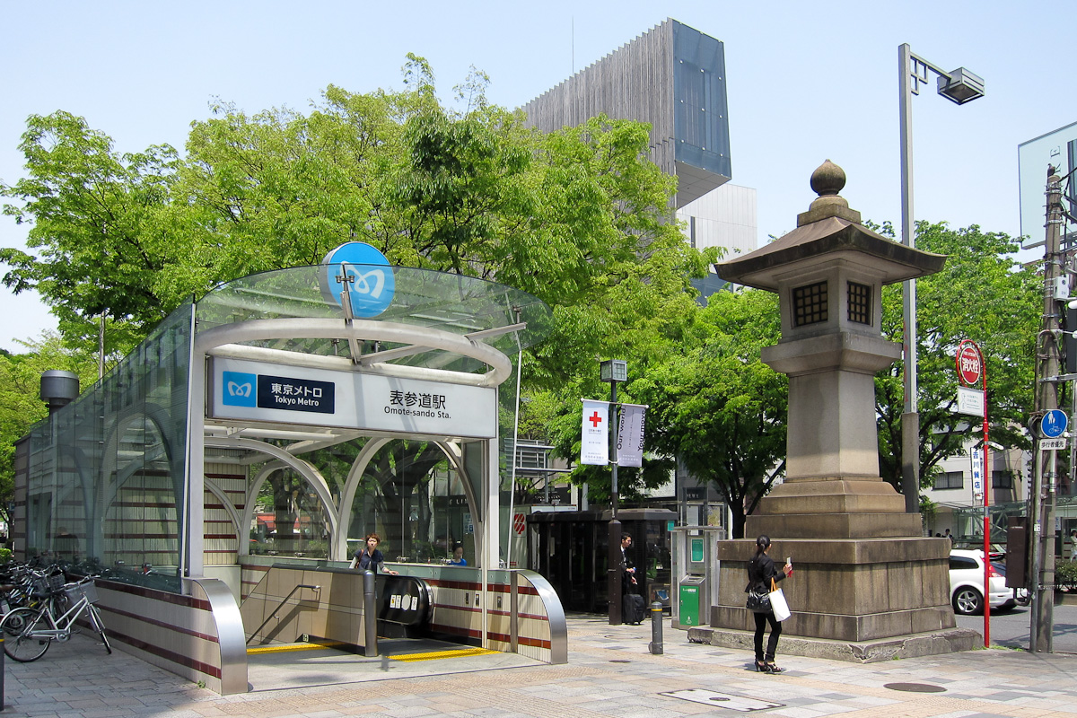 Entrance to Omotesando Station in Tokyo